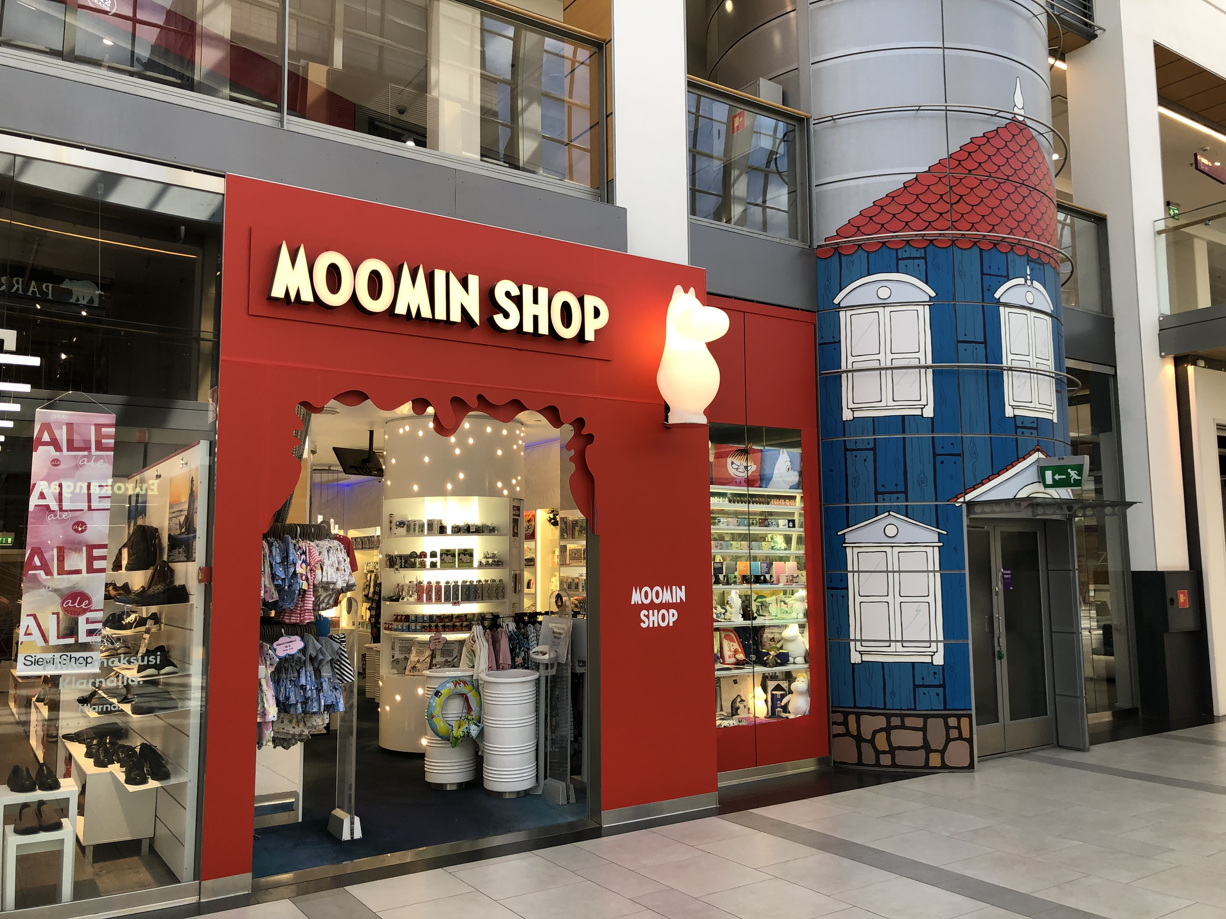 Moon Shop in Itis Mall in July 2019.